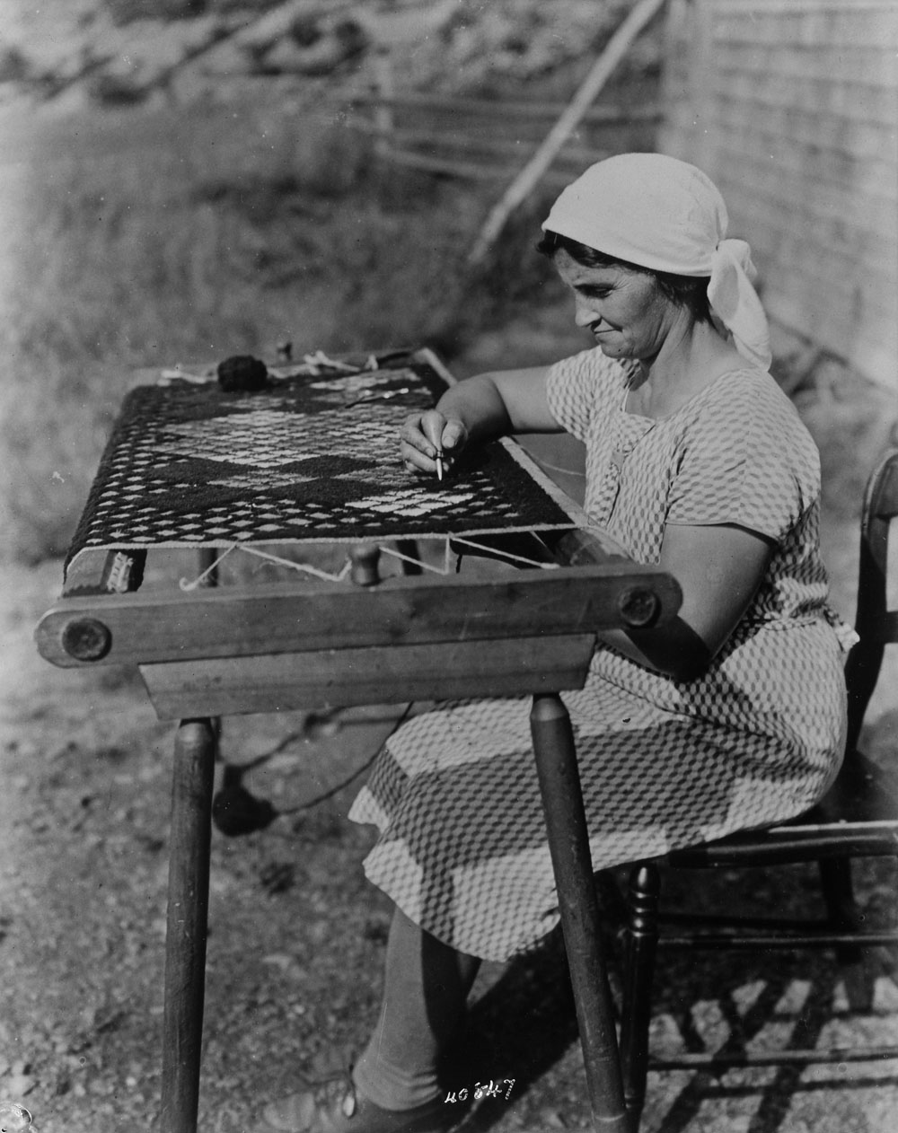 Acadian lady making a rug, 1938. Cape Breton, Nova Scotia, Canada. Reference No. / Numéro de référence : MIKAN 3353841 Location / Lieu : Cape Breton, Nova Scotia, Canada / Cape Breton, Nouvelle-Écosse, Canada Credit / Mention de source : Library and Archives Canada, e010862149 / Bibliothèque et Archives Canada, e010862149